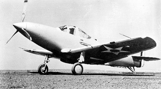 Bell XFL-1 Airabonita, U.S. Navy version of the P-39 Airacobra.